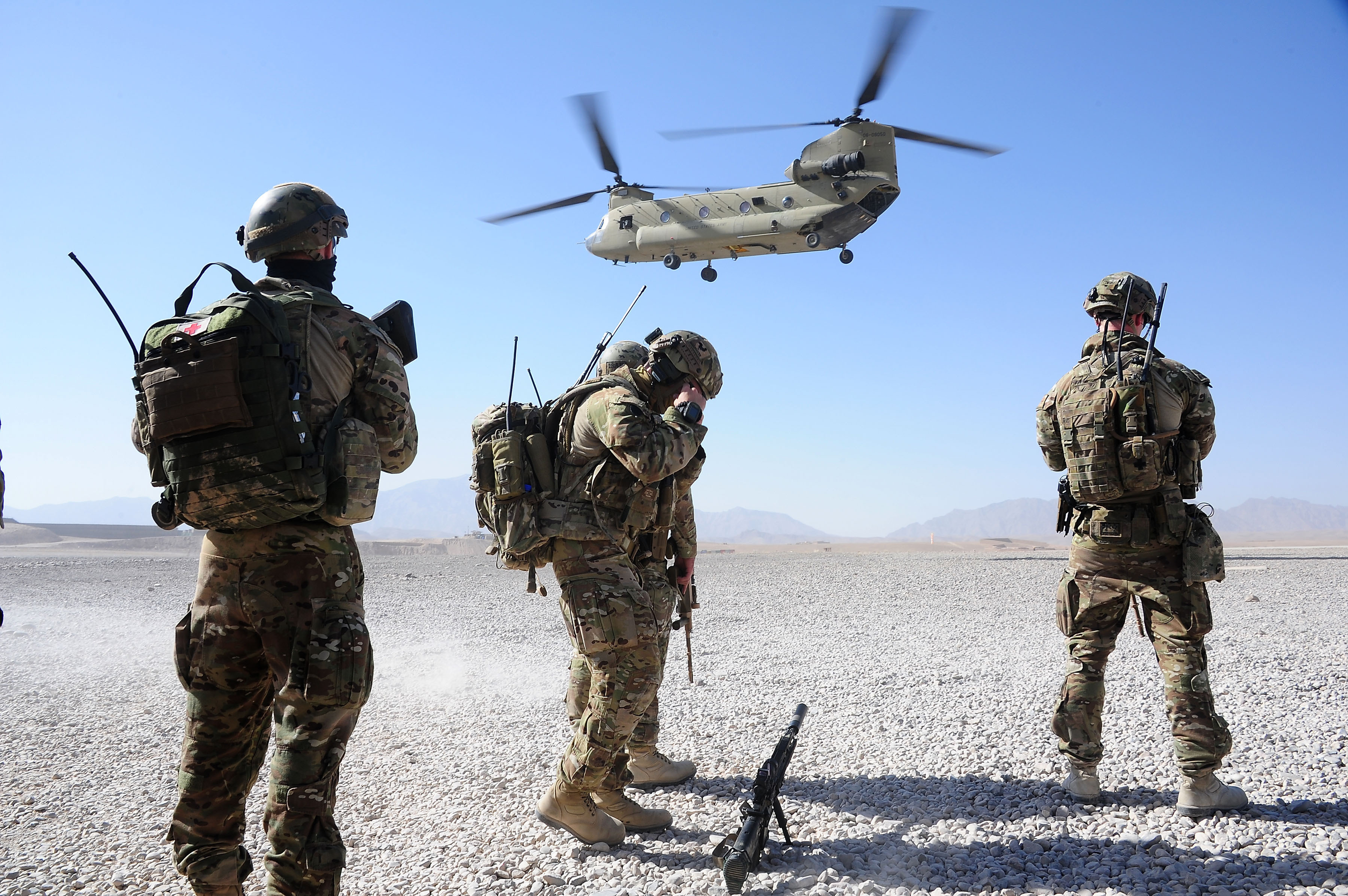 Australian soldiers from the 2 Cavalry Regiment Task Force prepare to board a CH47 Chinook helicopter. The soldiers are facilitating a visit by Afghan security officials to Char Chineh district in Uruzgan's remote north west corner.